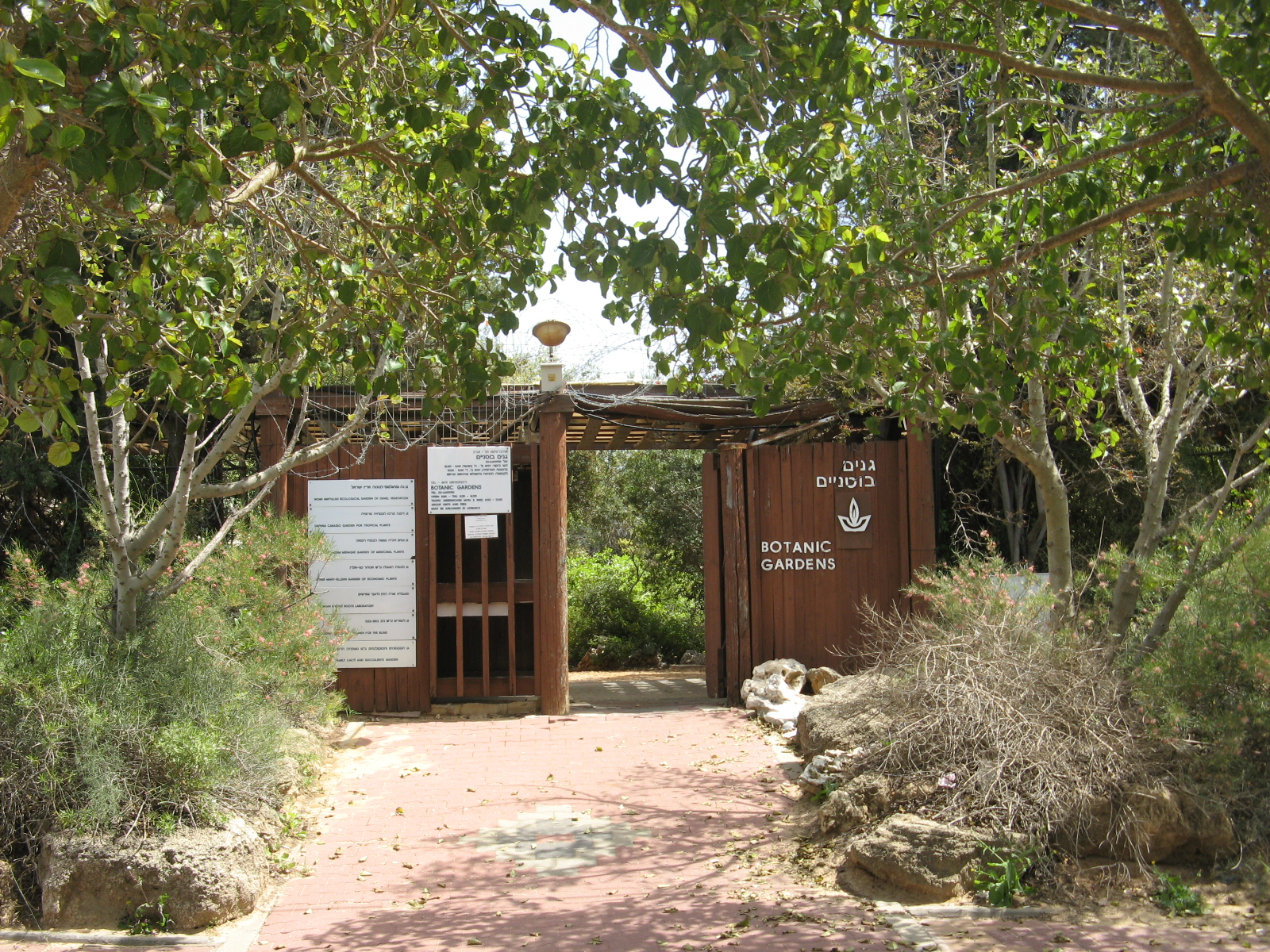 הגנים הבוטנים